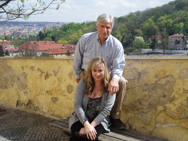 Steve and Elizabeth Berry in Prague